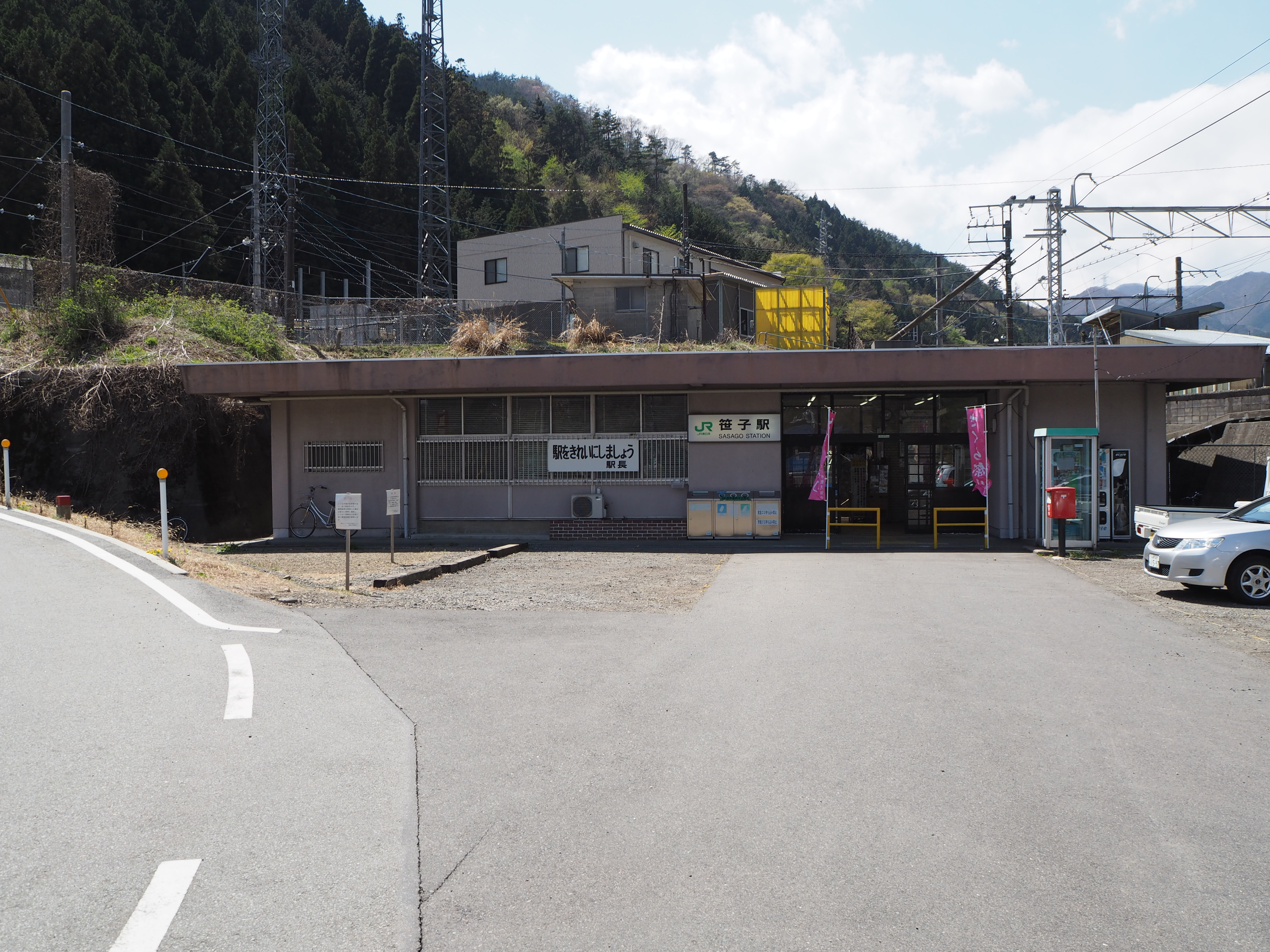 Sasago Station